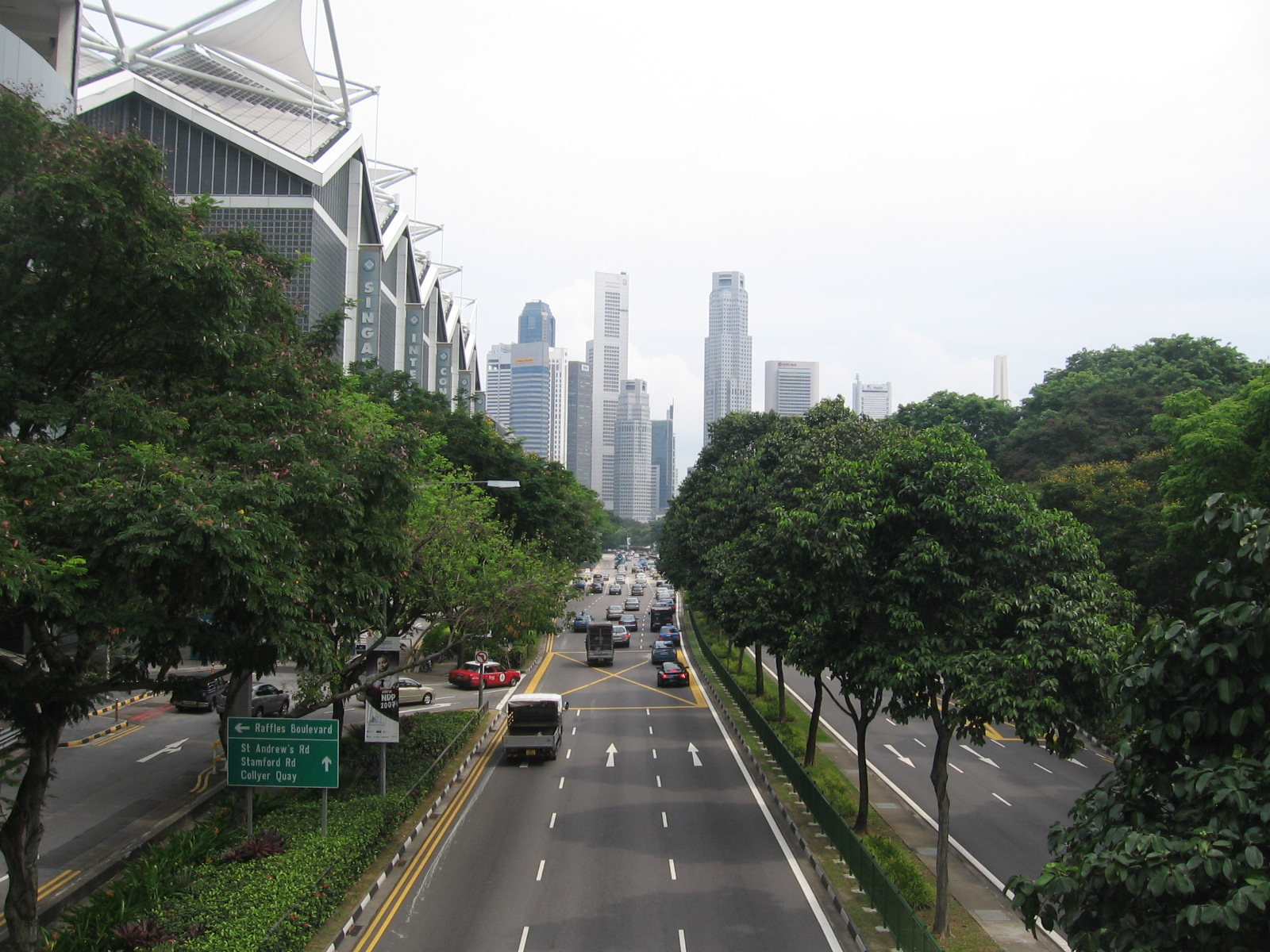 Nicoll Highway